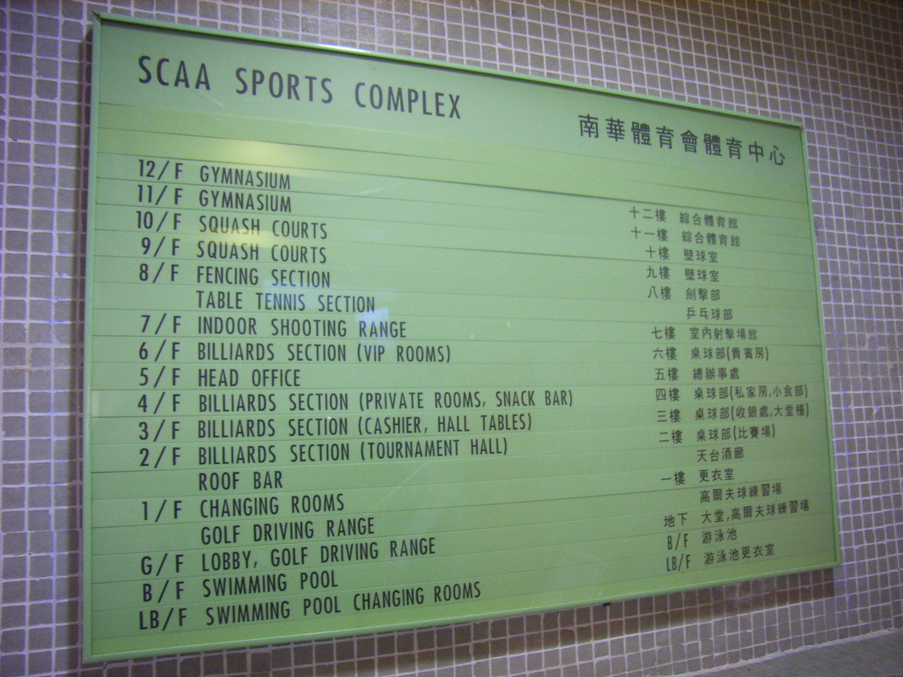 加路連山道 (Caroline Hill Road) 是香港島銅鑼灣南部，香港大球場以北的一條馬鐵U形街道，其中有歷史尤久的南華體育會(South China Athletic Association)，還有77號的香港孔聖堂小學(Confucius Hall Primary School)。 Author: BEVERLYSHEN